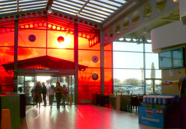 Main Lobby Strensham Services